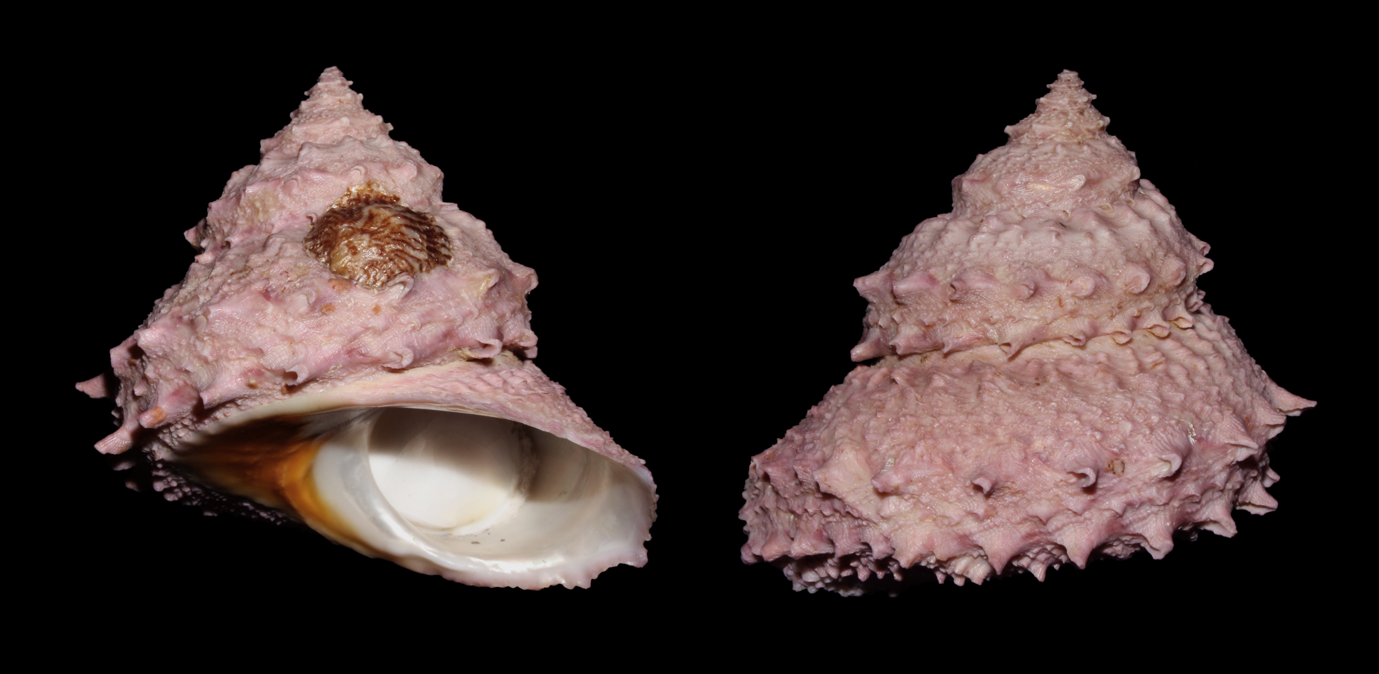 Bolma modesta Reeve, 1843. With Crepidula sp. attached, and with operculum. Minabe, Wakayama, Japan. 55 mm.